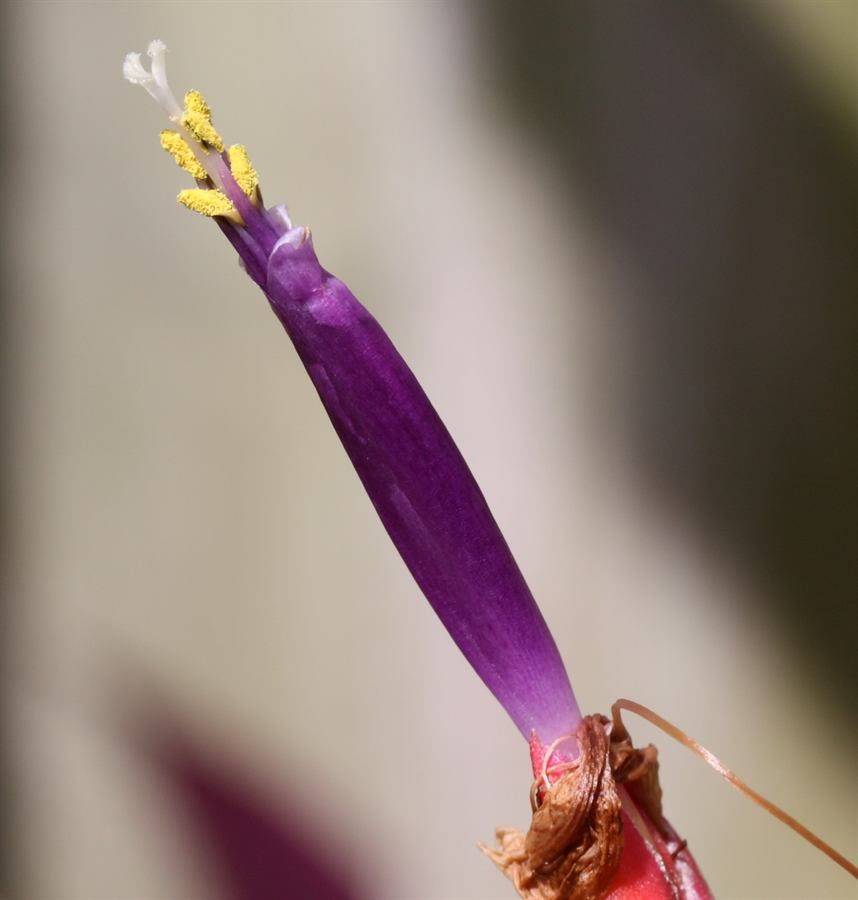 Tillandsia bulbosa flower